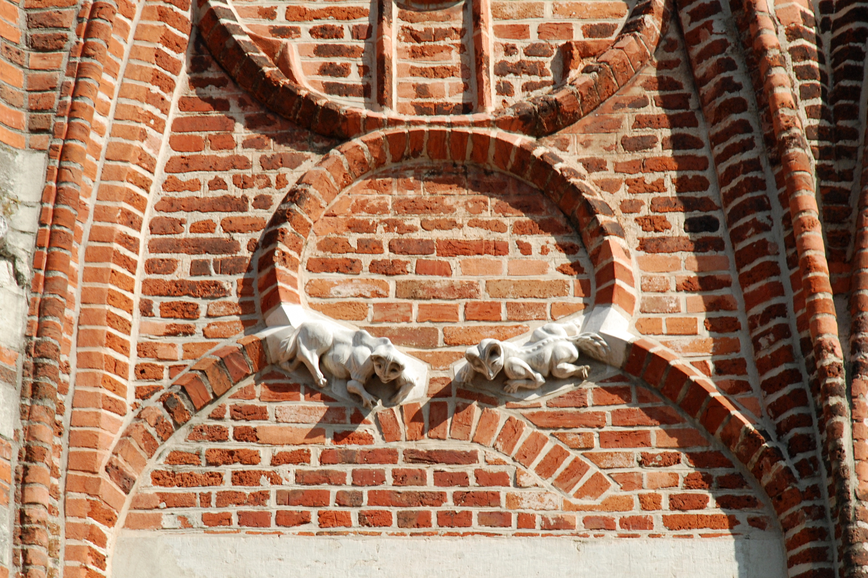 Belgium - Leuven - House van 't Sestich